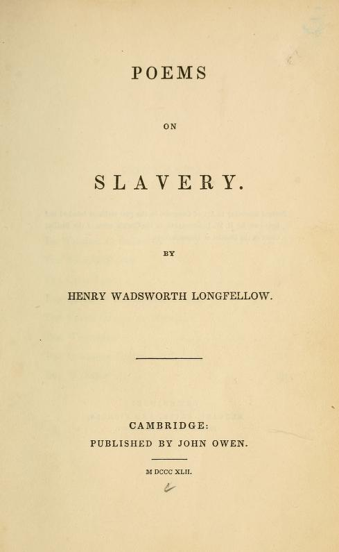 Title page for Poems on Slavery, a collection of poetry by American writer Henry Wadsworth Longfellow. Cambridge, MA: John Owen, 1842.